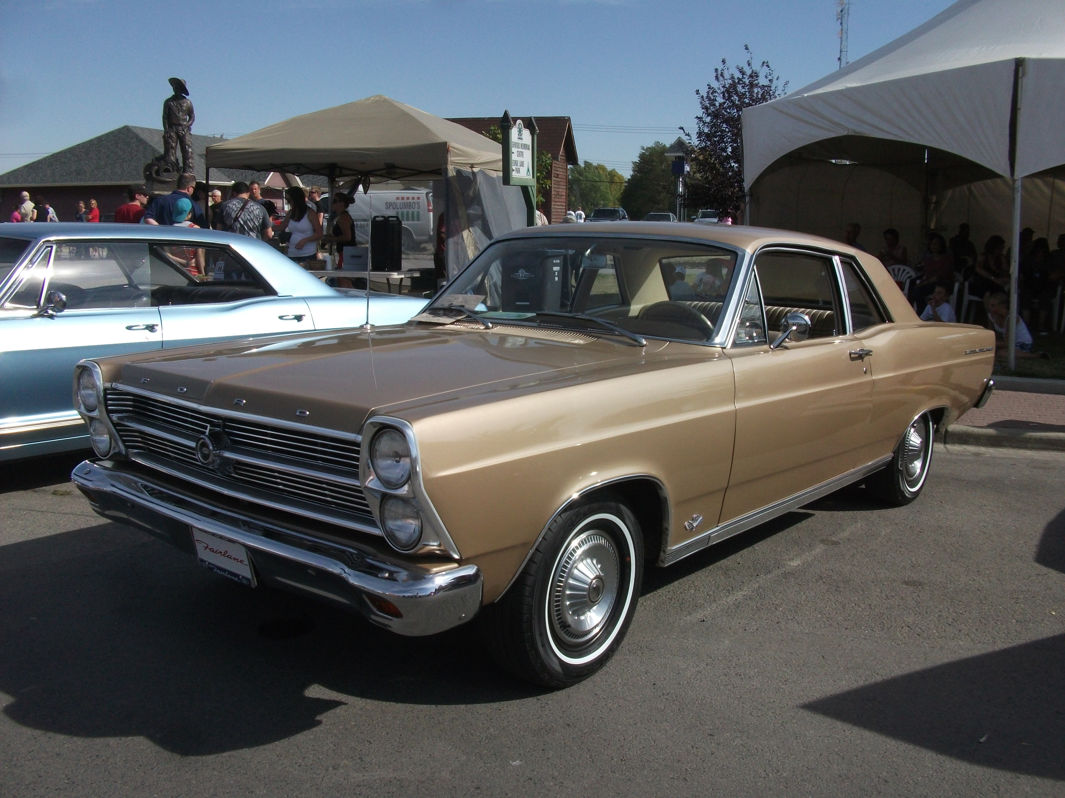 1966 Ford Fairlane 500 Club Coupe in brown